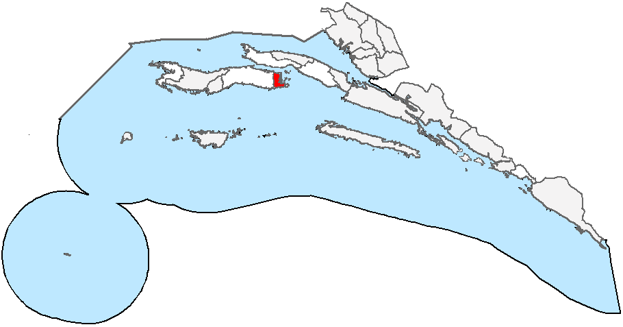 Map of Lumbarda municipality within Dubrovnik-Neretva County.